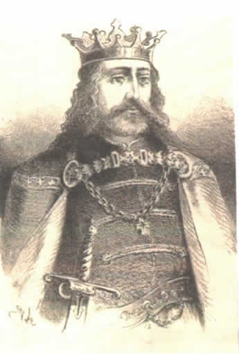 Dobroslav II